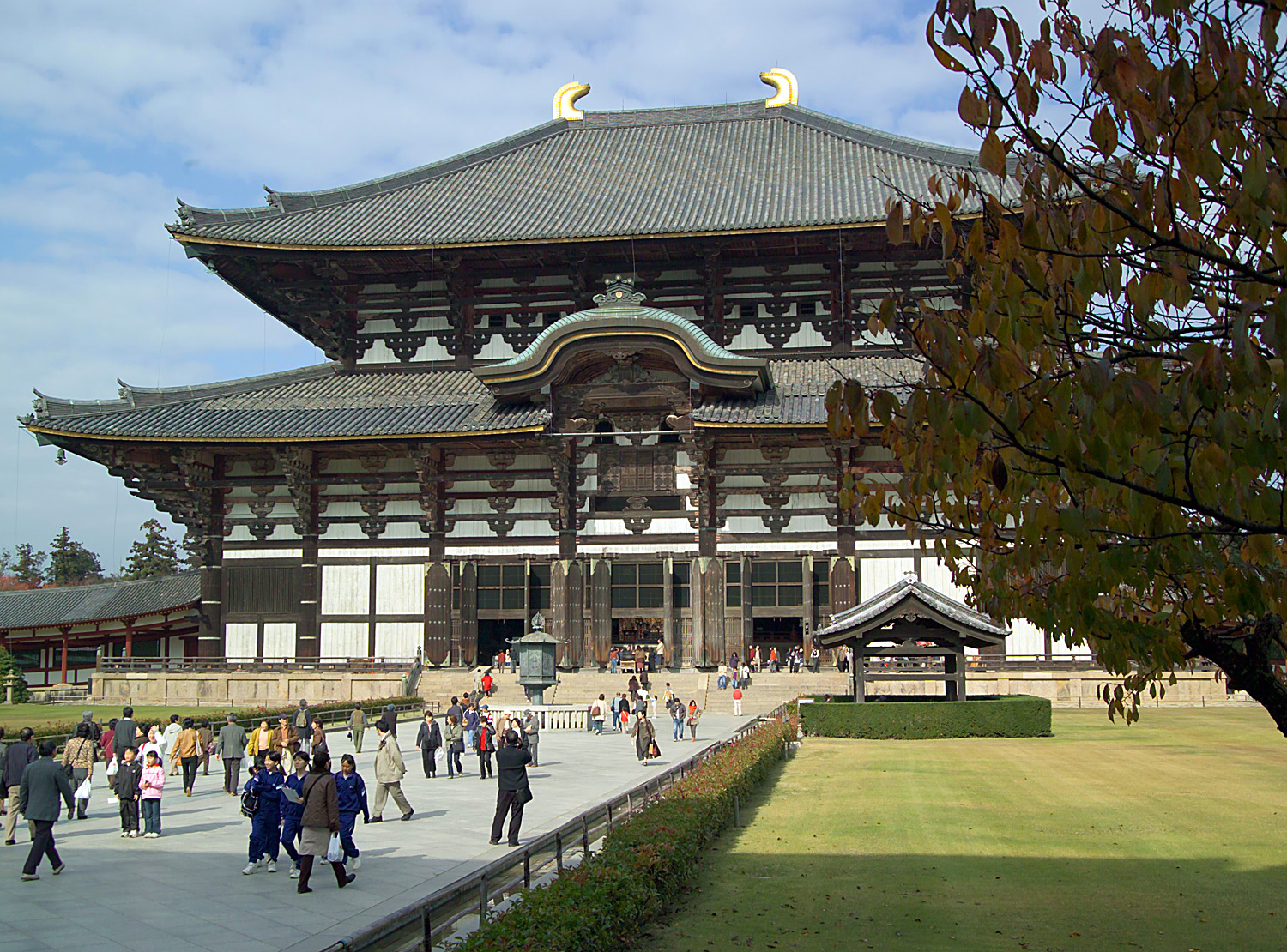 Todaiji Nara Japan I took this photo and contribute my rights in the file to the public domain; people and organizations retain rights over images in it.